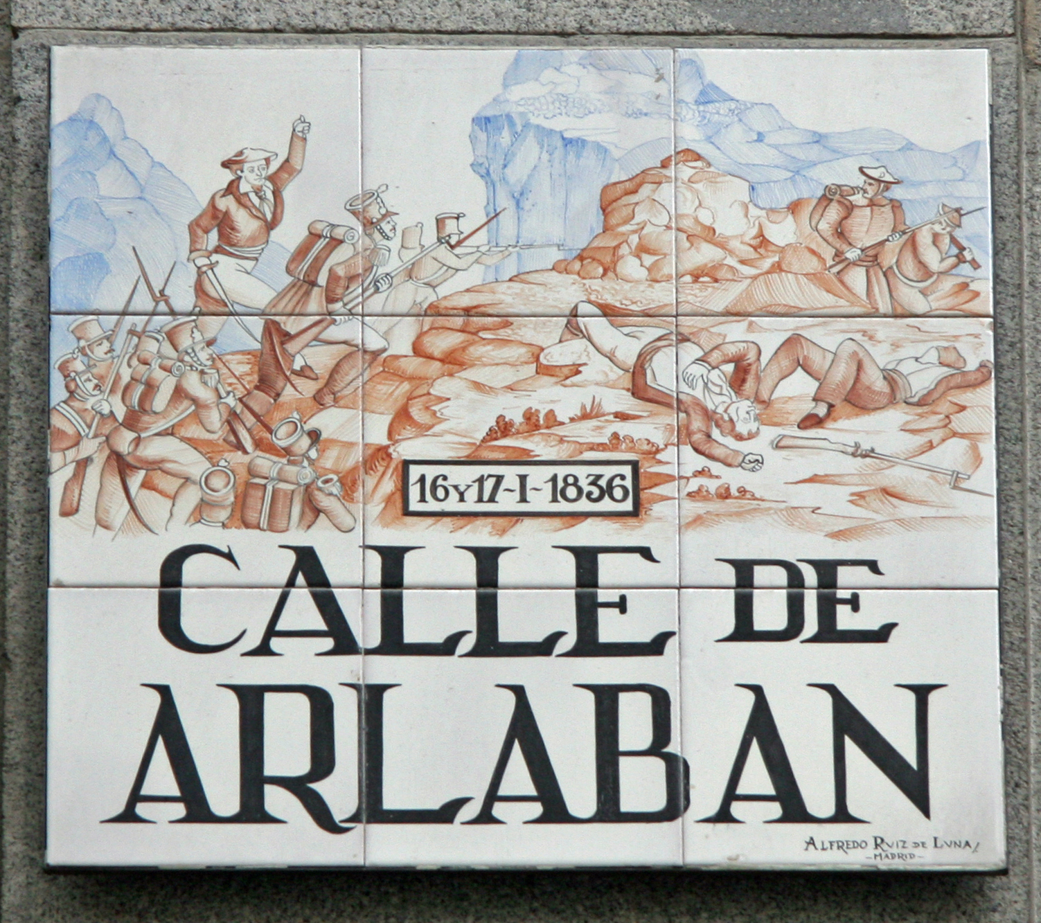 Sign of Calle de Arlabán (street, Centro district) in Madrid (Spain).